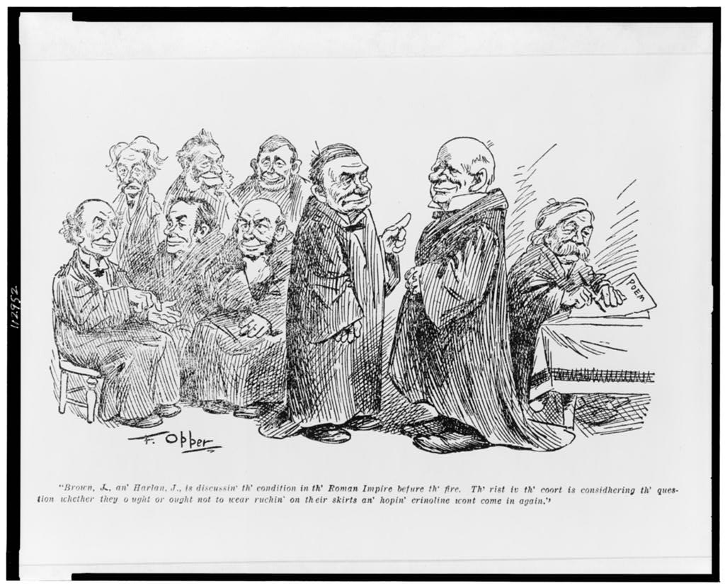 Political Cartoon depicting Supreme Court justices, ca. 1896.